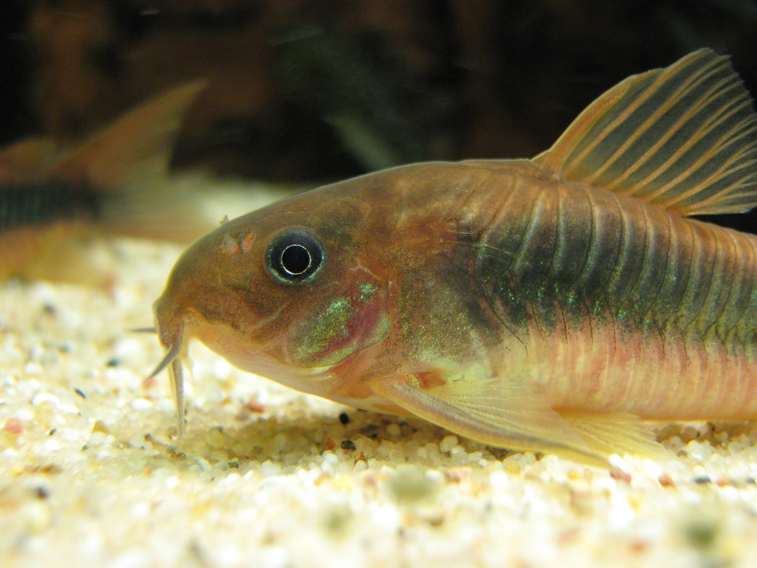 Corydoras aeneus, head and body are covered by bony plates. At the body two rows of overlapping bony plates are visible. Pigmentation occurs due to crystals which contain hypoxanthin among other substances.